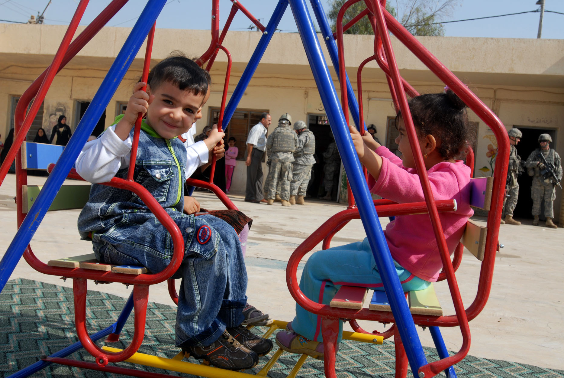 FORWARD OPERATING BASE FALCON, Iraq - Two Iraqi children enjoy a new swing set Oct. 27 at the Al-Akmar Kindergarten School in the Mechaniks neighborhood in southern Baghdadís Rashid district. Soldiers from 1st Brigade Combat Team, 4th Infantry Division, Multi-National Division ñ Baghdad, coordinated with both neighborhood and school leaders to acquire new playground equipment and school supplies. (U.S. Army photo by Sgt. David Hodge, 1st BCT PAO, 4th Inf. Div., MND-B) See more at Army.mil